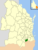 Location of the former Local Government Area in Queensland